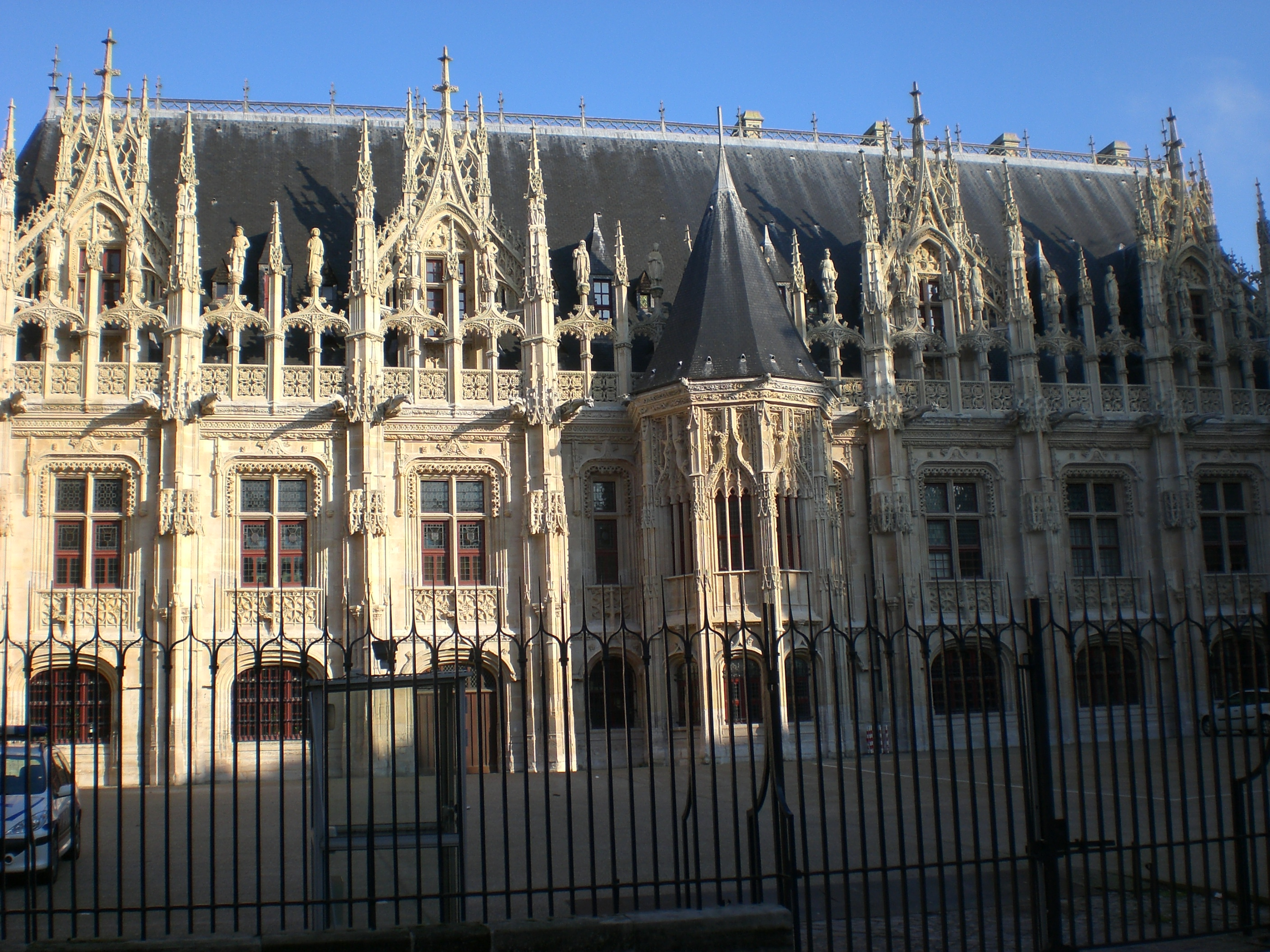 Rouen, Palaice of Justice, 1499-1550